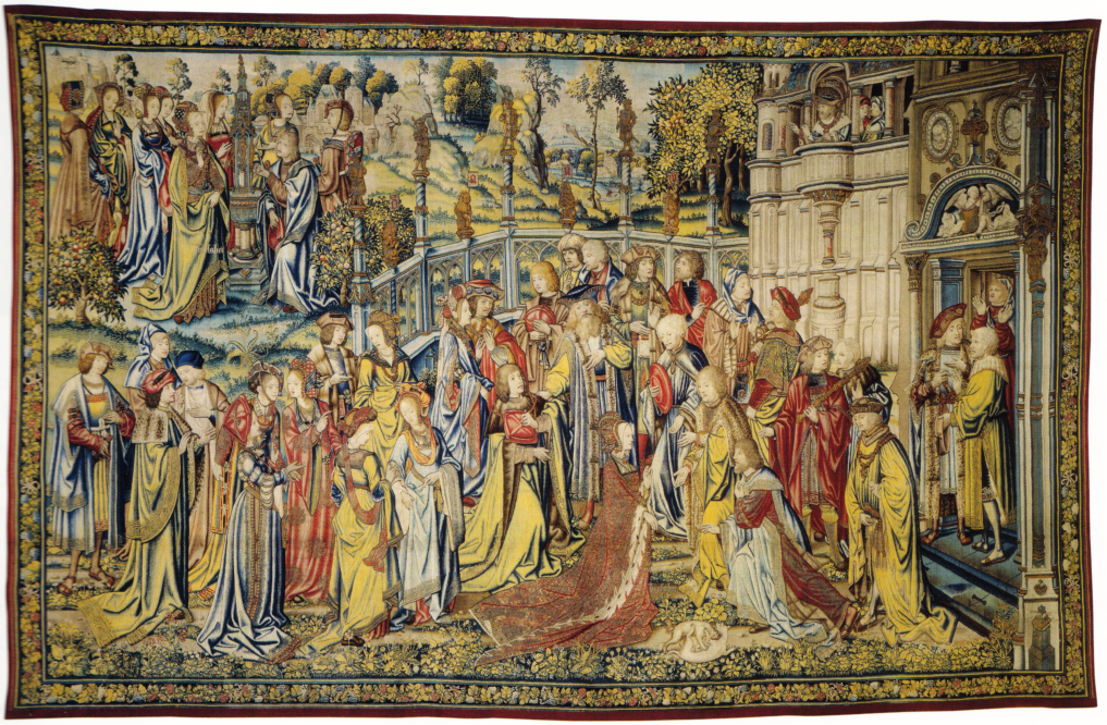 David Sees Bathsheba Washing and Invites Her to His Palace from 10-part set of tapestries of The Story of David, woven in Brussels c. 1526-28.